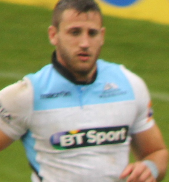 Harlequins vs Glasgow Warriors Pre-season game.